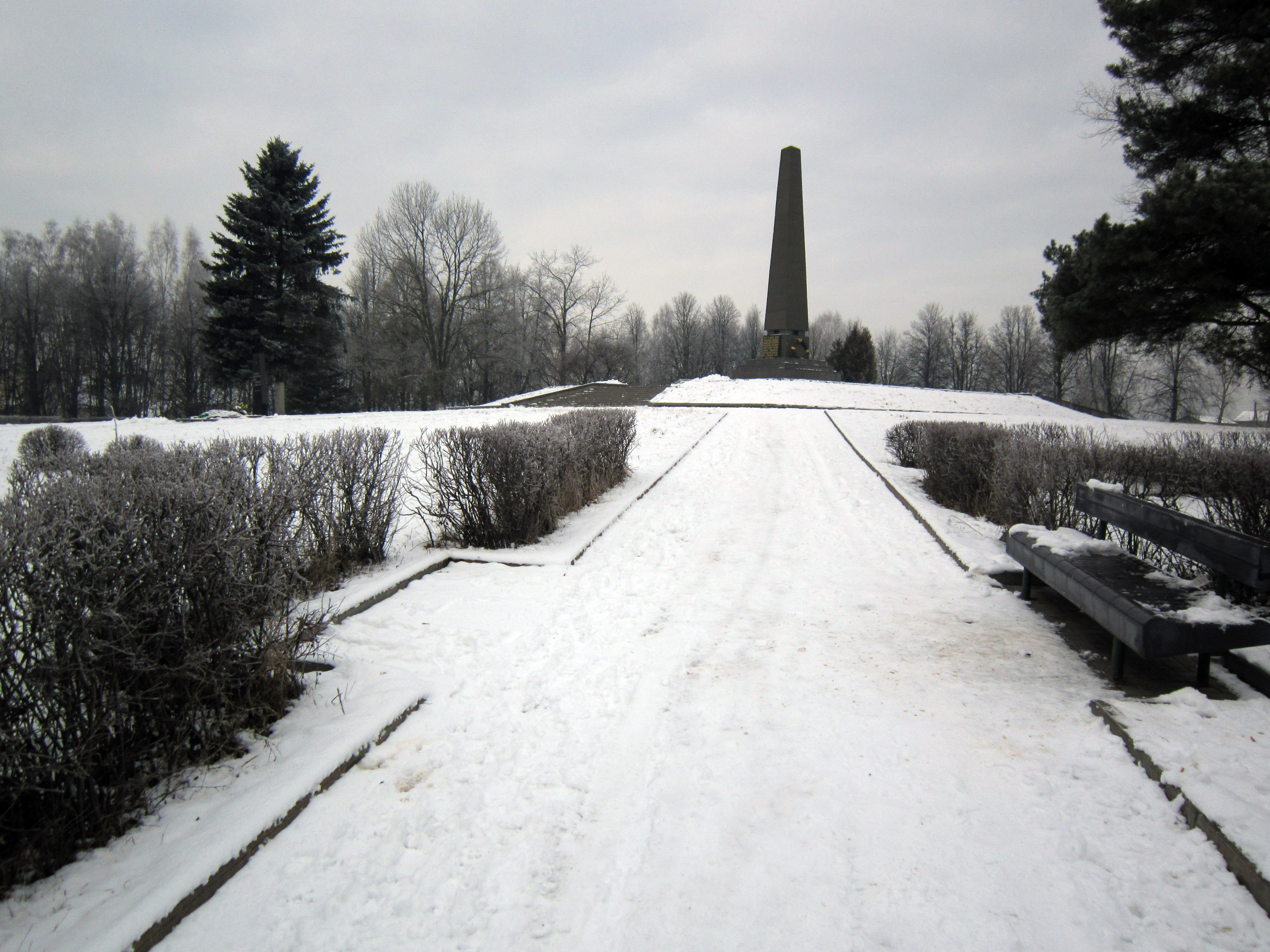 Memorial of victims of Maly Trastsianets extermination camp and Soviet soldiers killed during liberation of Minsk